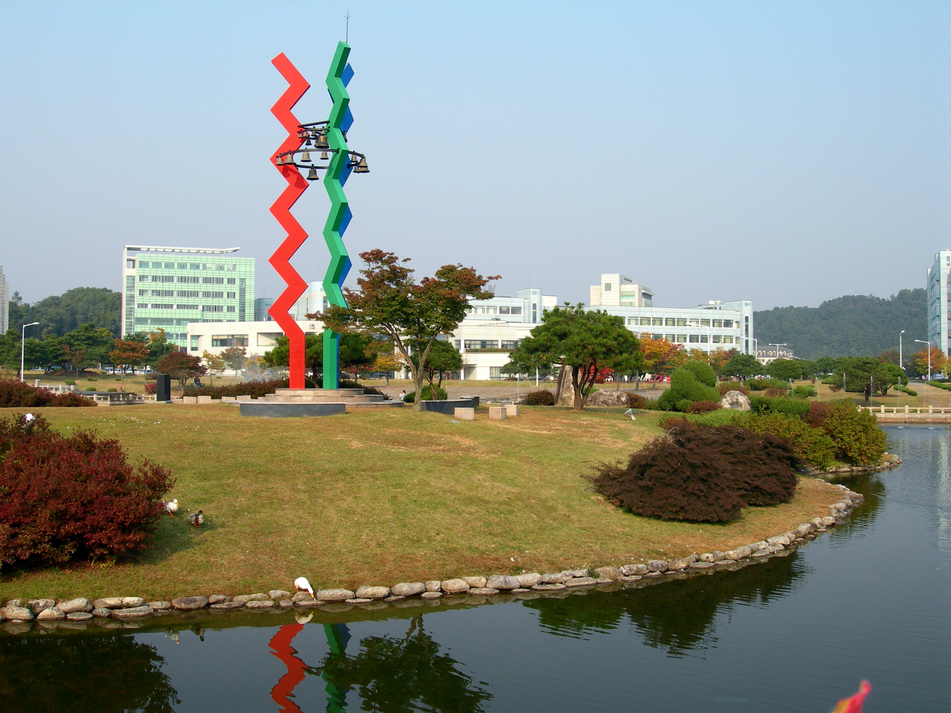 Category:Universities and colleges in Daejeon